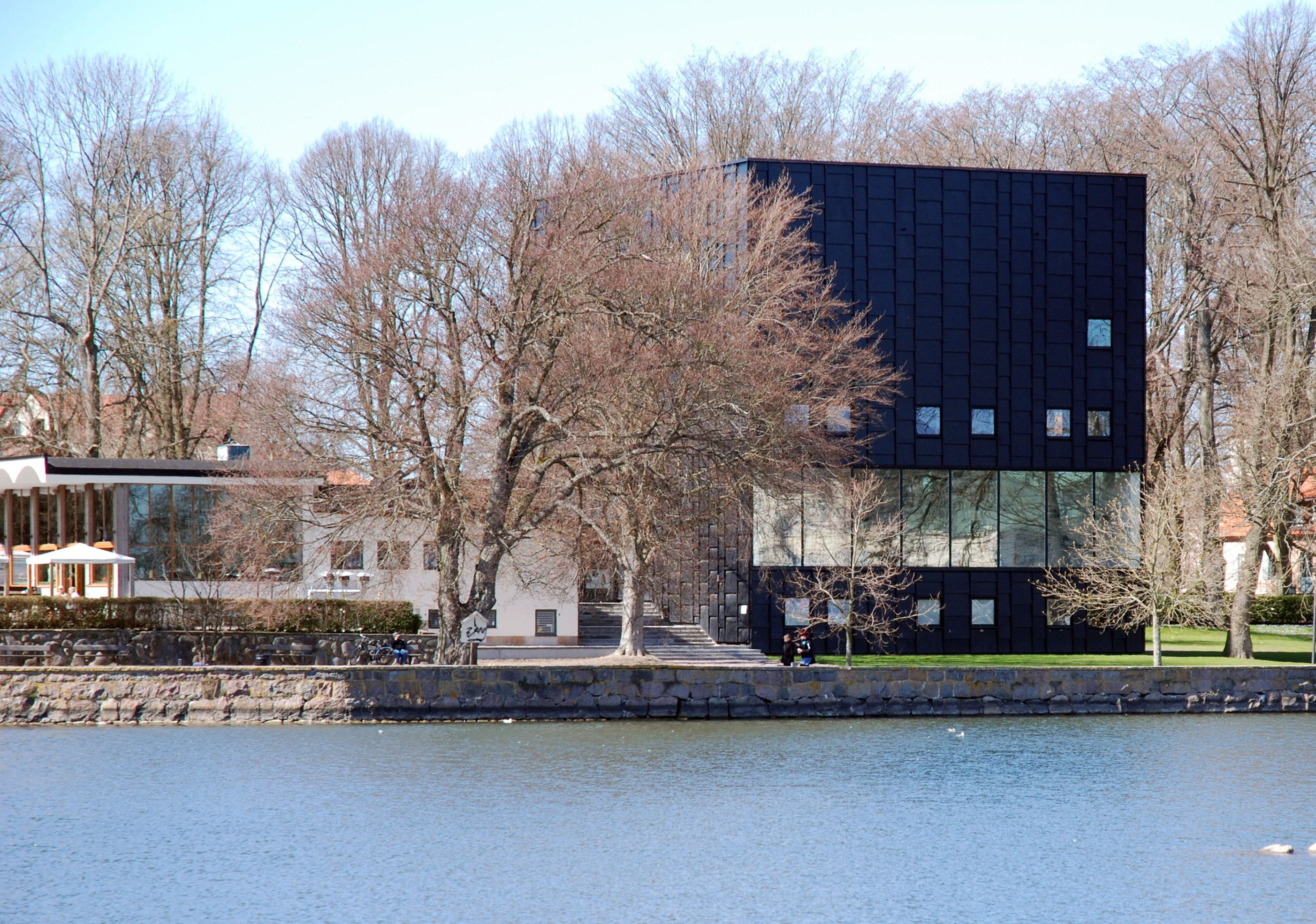 Kalmar Konstmuseum (Art Museum of Kalmar), Sweden